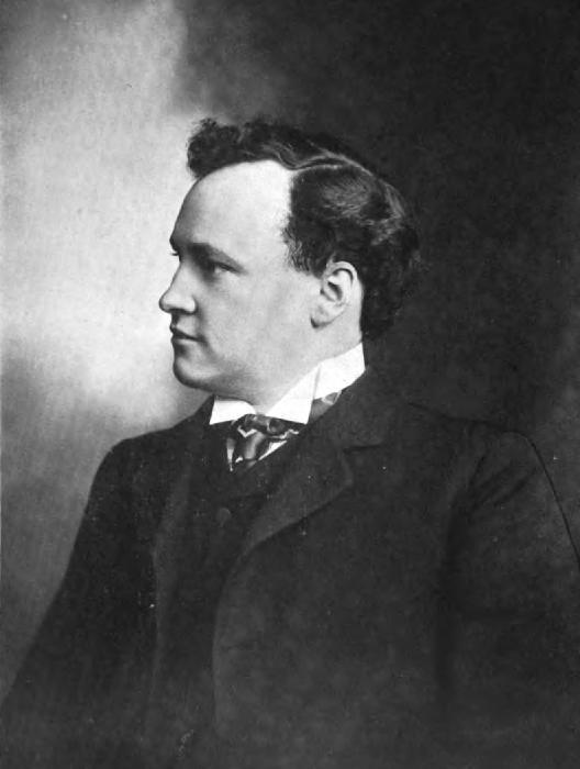 Portrait of the future Governor of Michigan (1927-1931), circa 1900